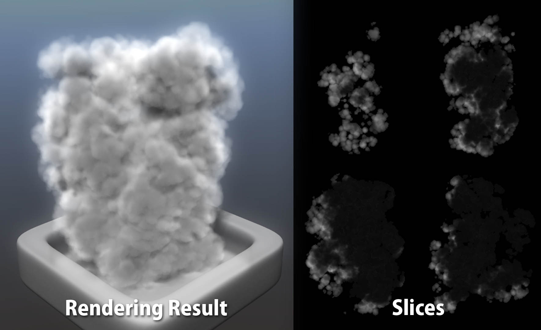 Smoke with volume texture, and its slices.